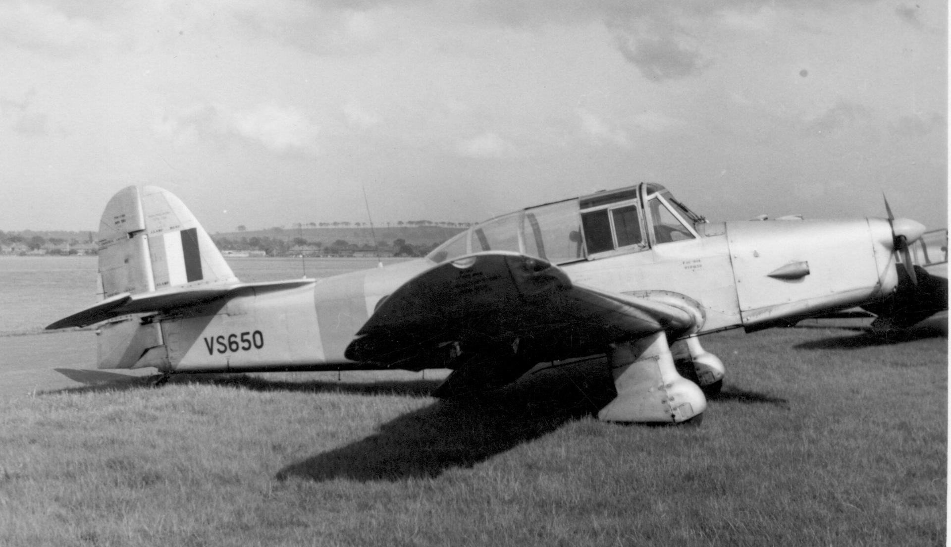 Percival Prentice T.1 VS650 of No.16 Flying Training School RAF at Wolverhampton (Pendeford) Airport